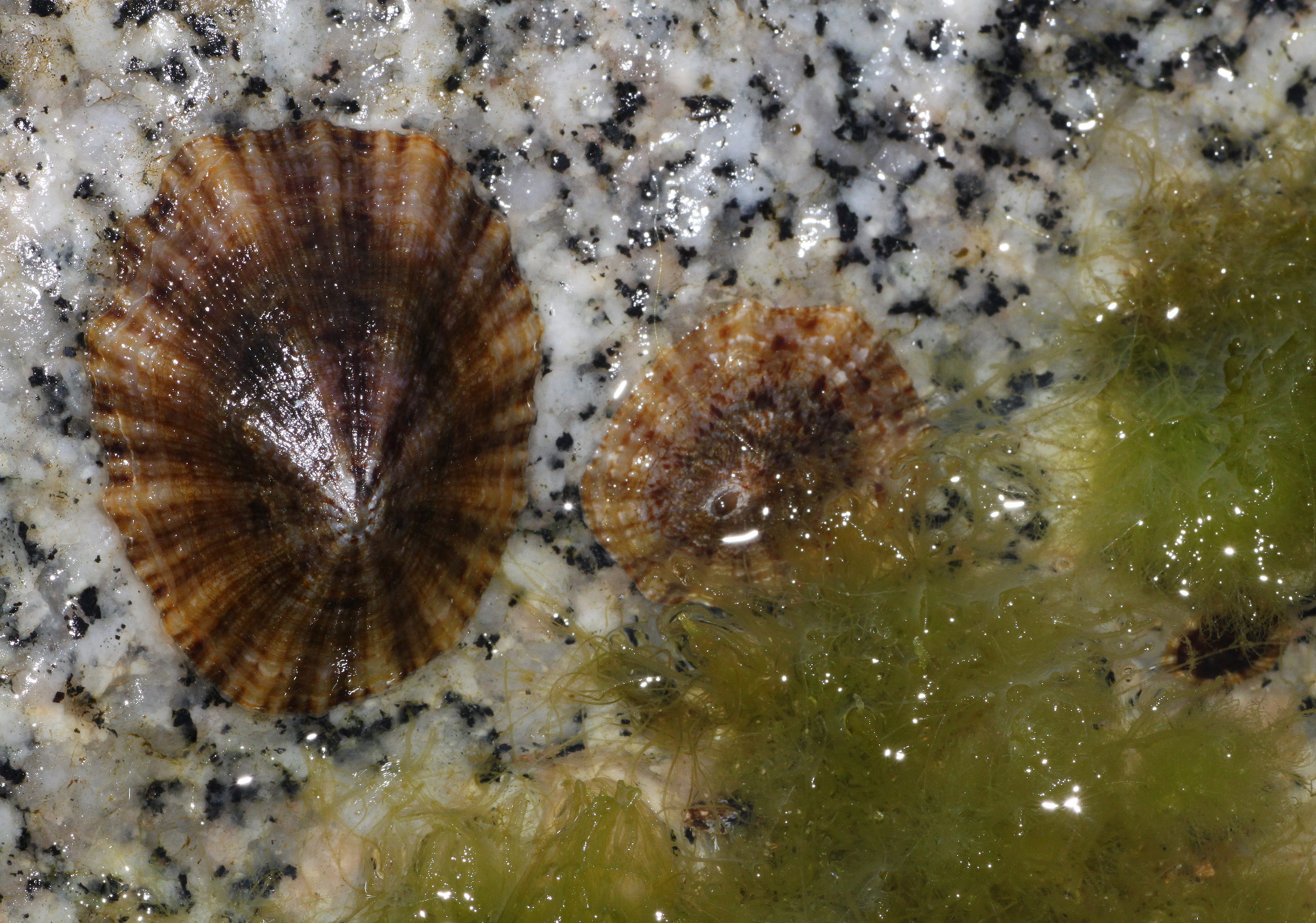 Limpet, Patella caerulea, Family: Patellidae, Location: Italy, Sardinia, Arbatax.